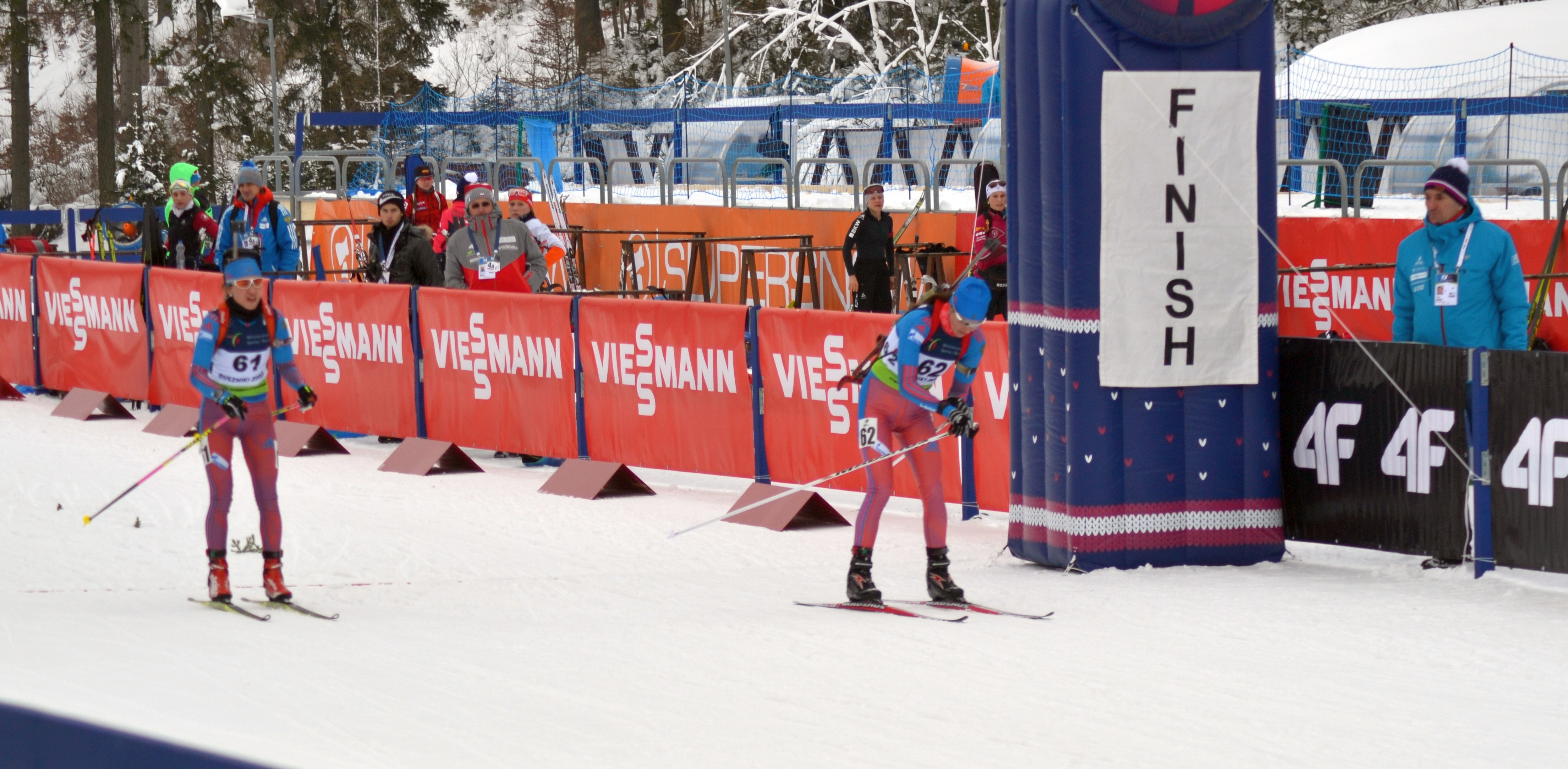 Open European Championships Biathlon 2017, Individual Women's race, held on January 25th.